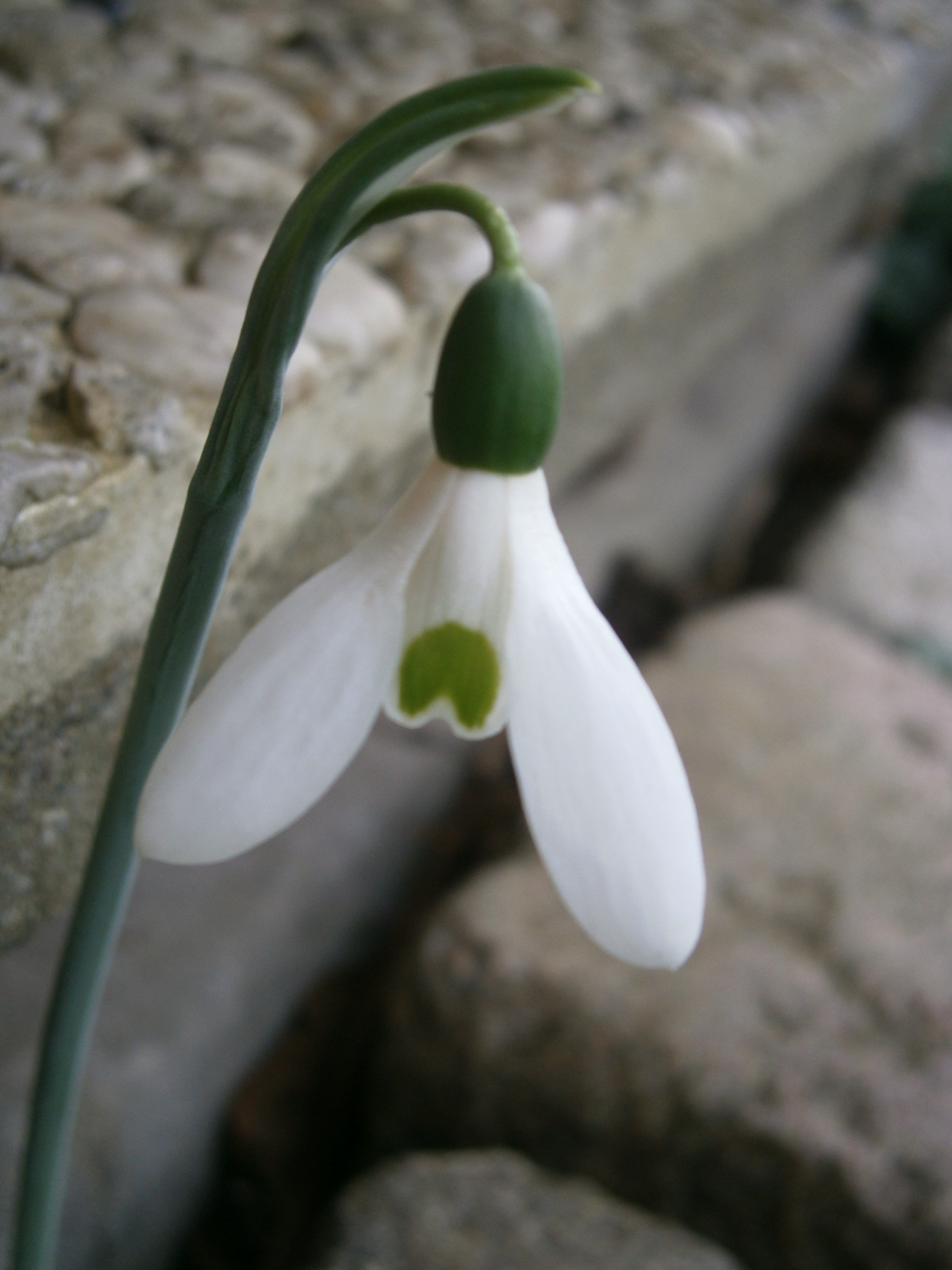 Galanthus elwesii var. monostictus